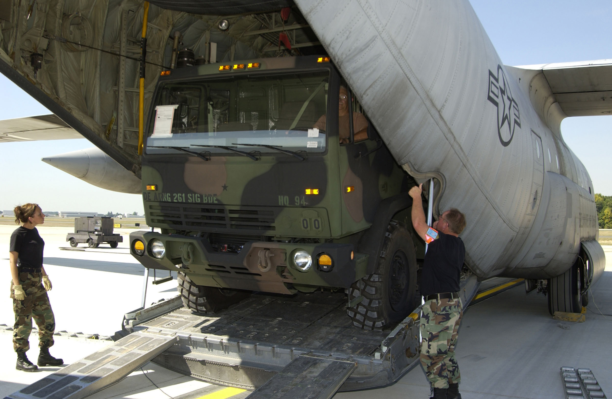 U.S. Air Force Senior Master Sgt. Michael Forsyth, a member of the 166 Aerial Port Flight, Delaware Air National Guard, assisted by Airman 1st Class Jennifer Quigg, load a M-1083 Tactical Vehicle aboard a Del ANG C-130H for transport to New Orleans, La in support of Operation Katrina.